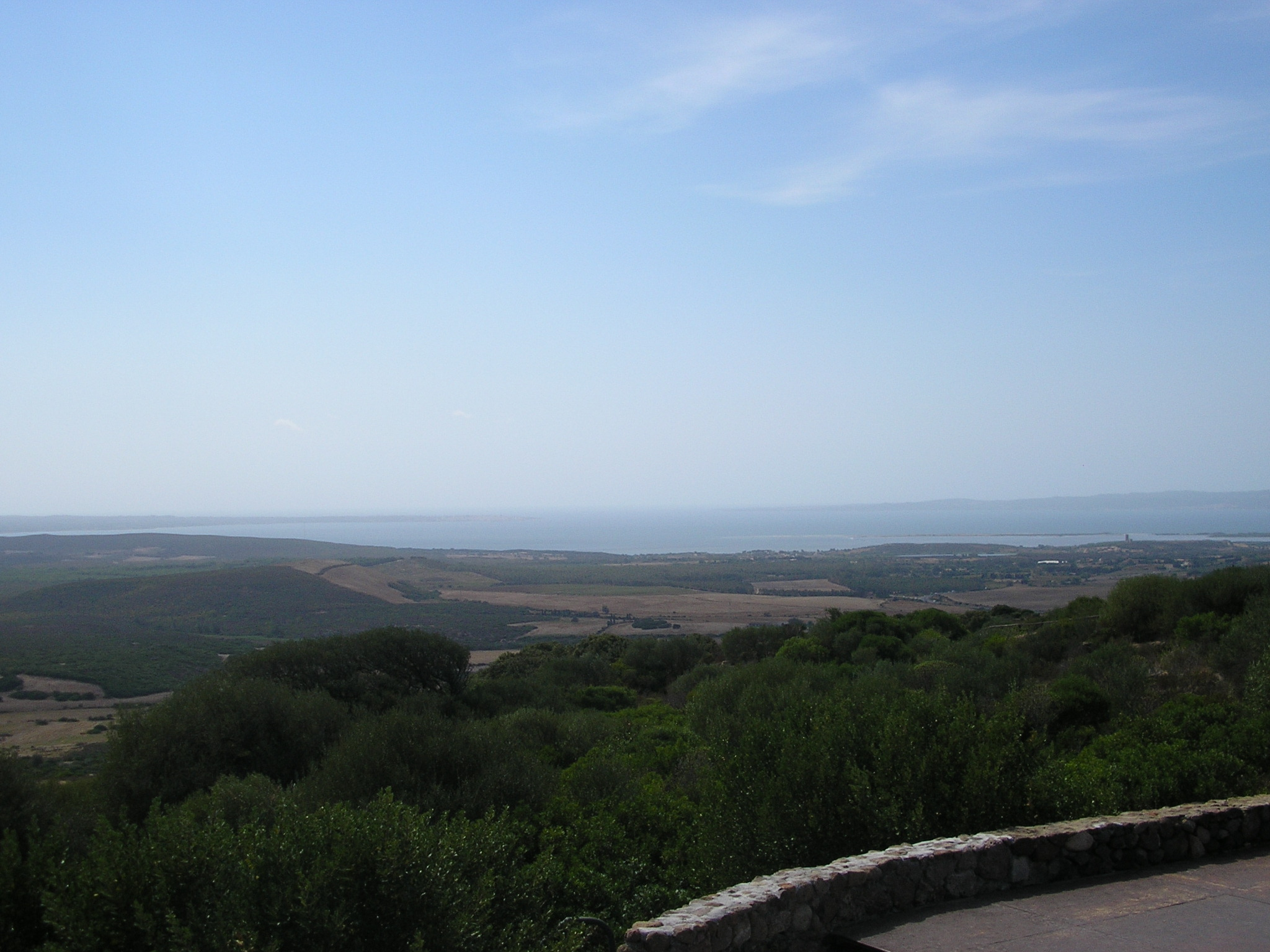 The Sulcis archipelago seen from Monte Sirai, in the surroundings of Carbonia, Sardinia, Italy. The island on the left is Sant'Antioco, the one on the right is San Pietro